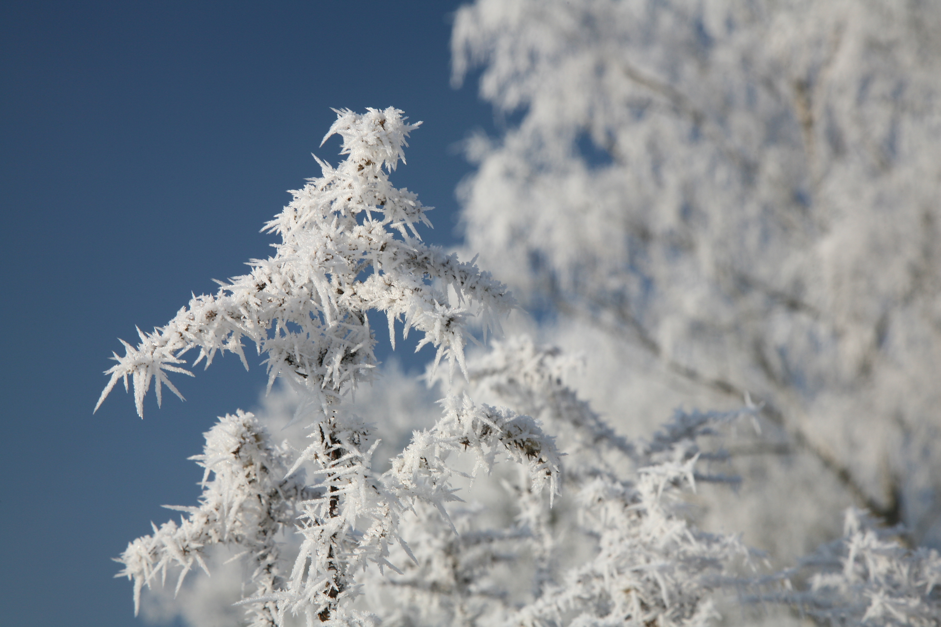 Hoar frost or soft rime on a cold winter day in Lower Saxony, Germany.